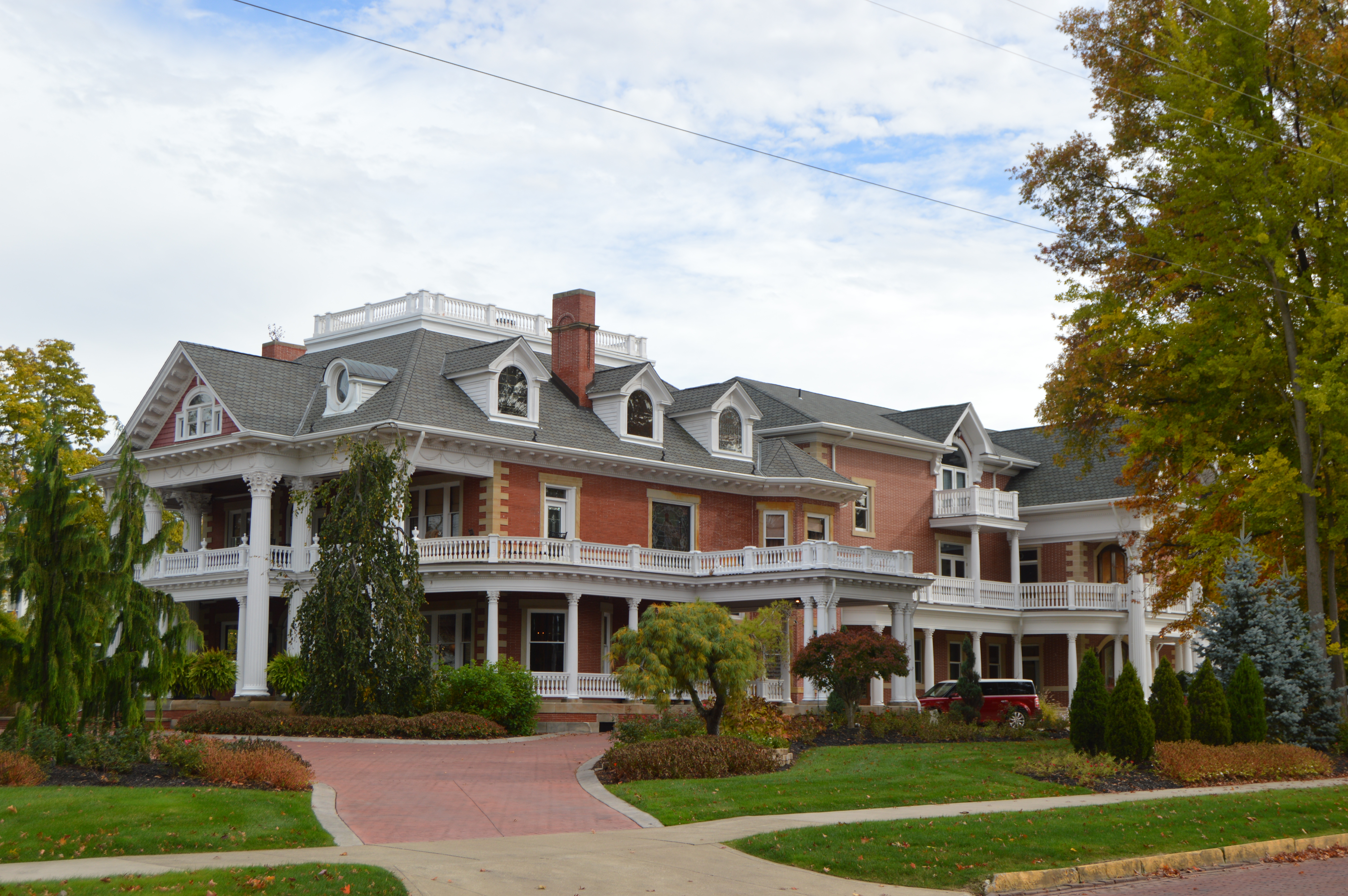 Western side and front of the Frank Sebring House, located at 385 W. Ohio Avenue in Sebring, Ohio, United States. Built in 1901, it is listed on the National Register of Historic Places.